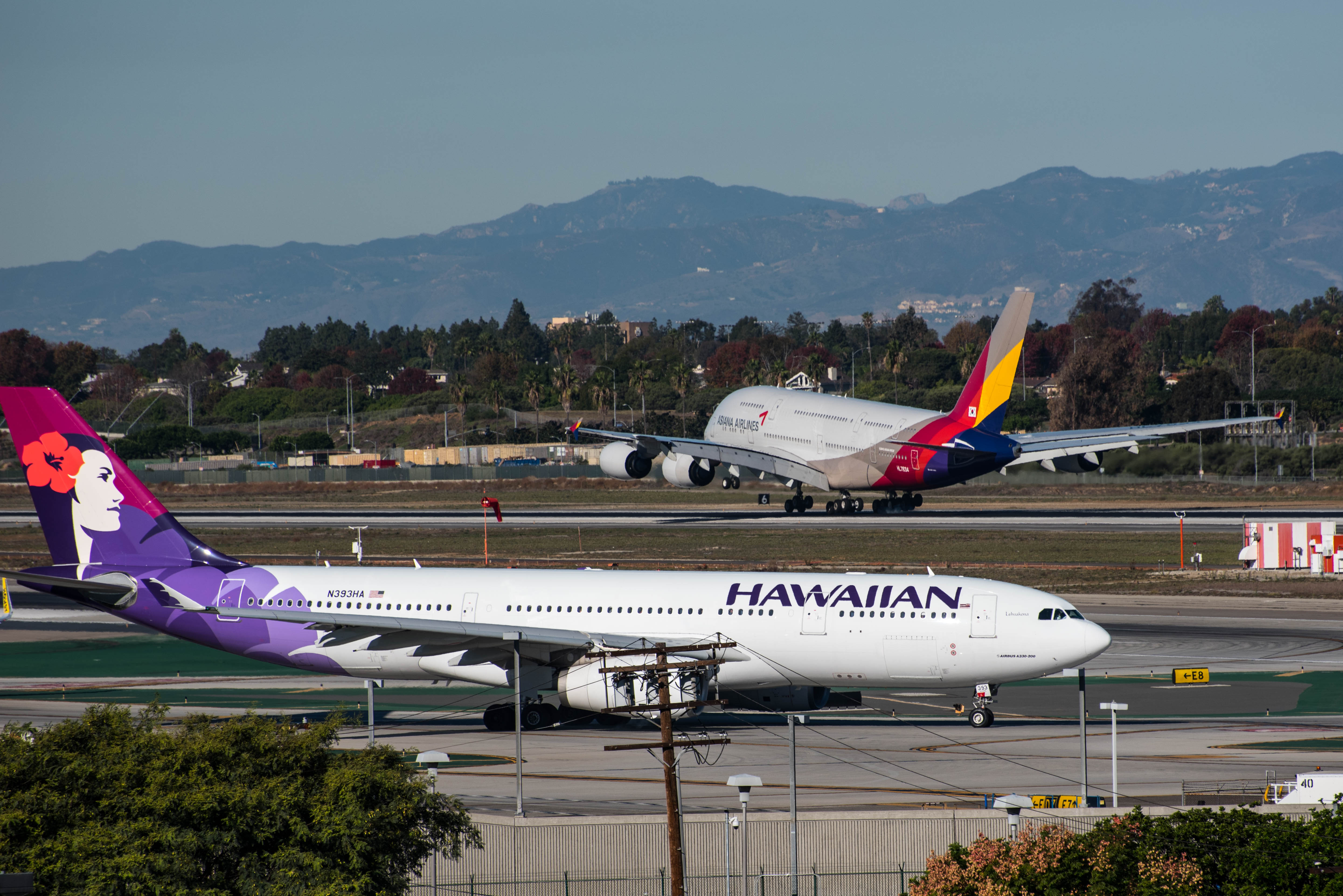 Los Angeles International Airport